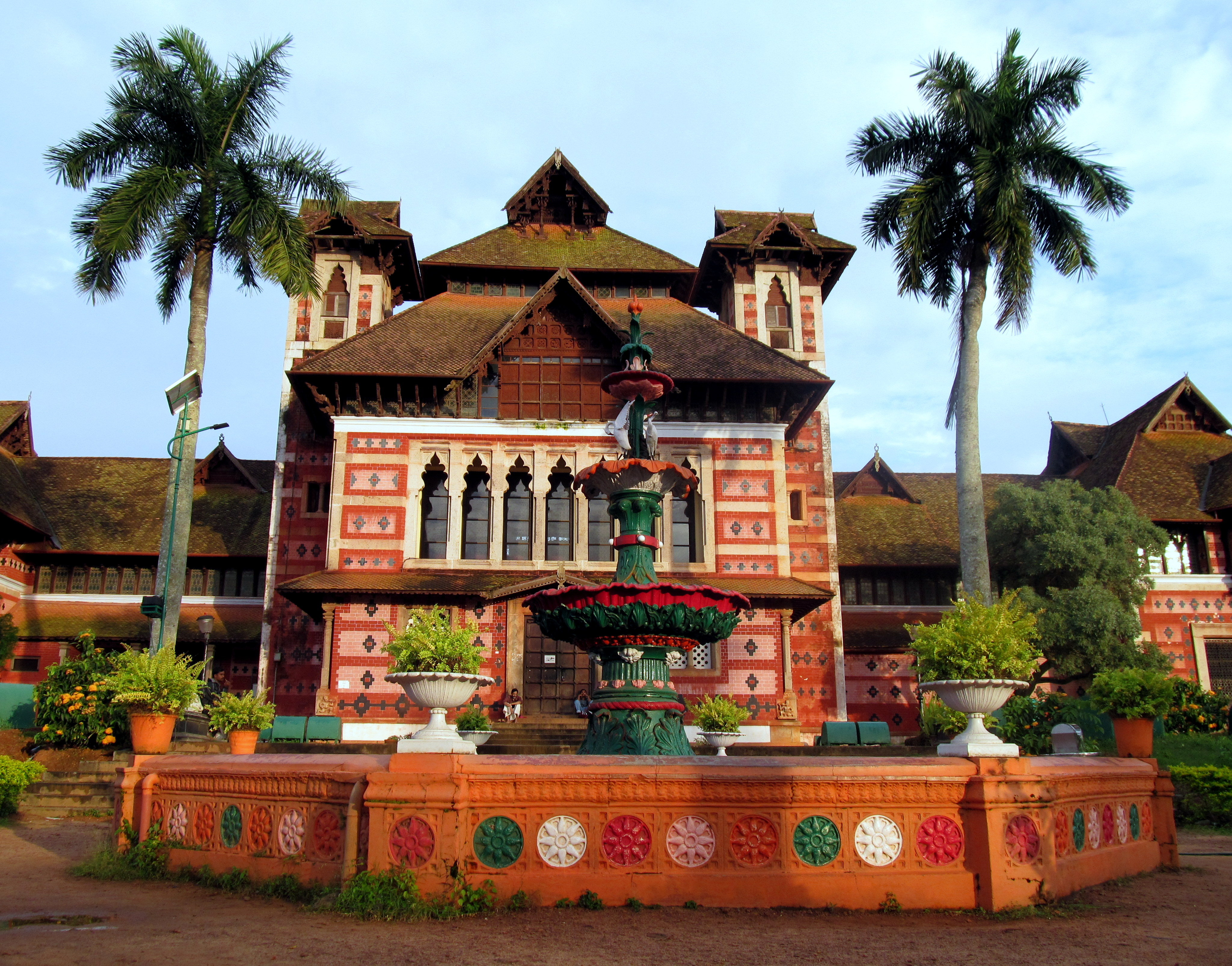 Napier Museum, Museum Compound, Thiruvananthapuram